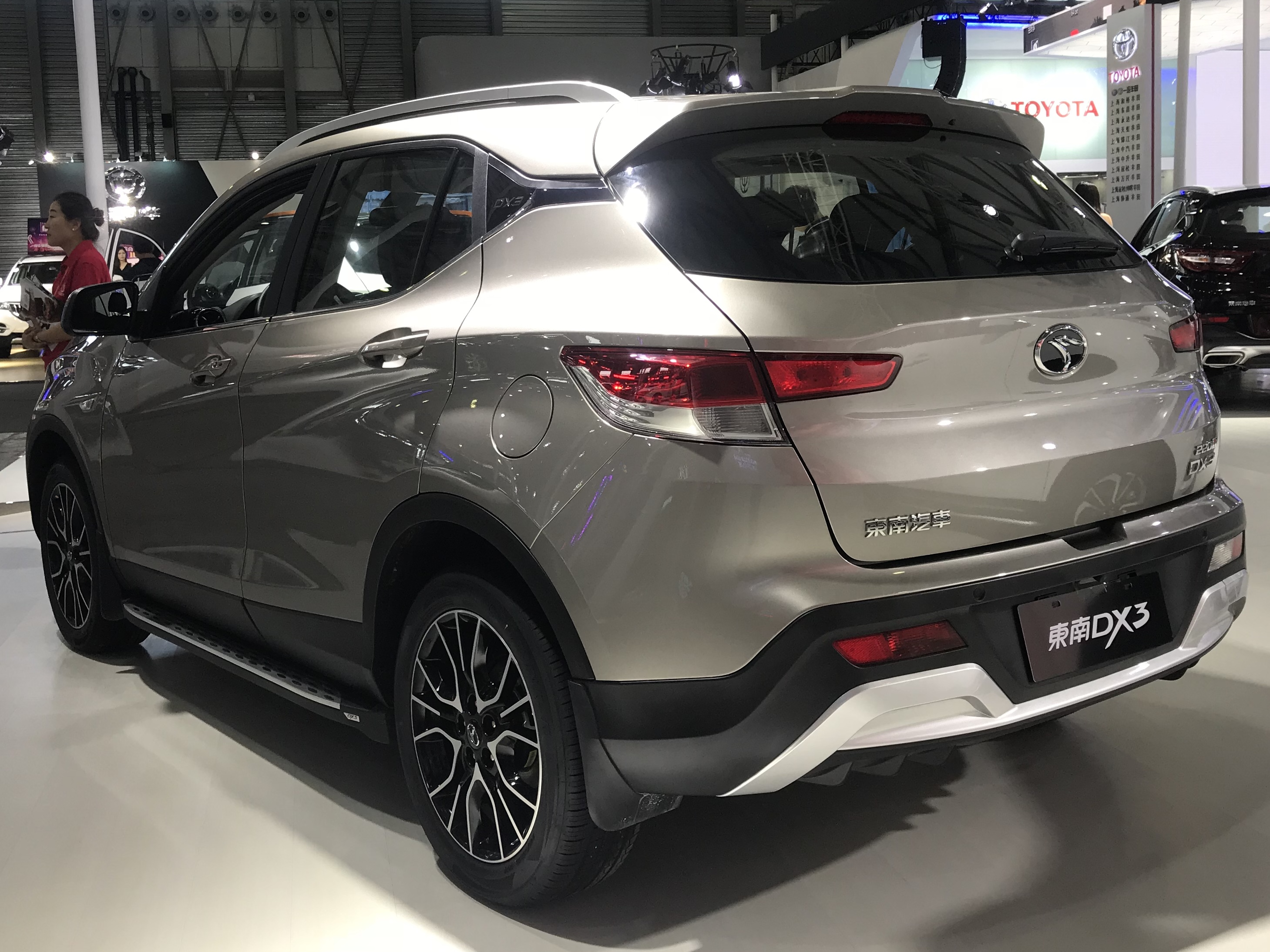 Soueast DX3 rear